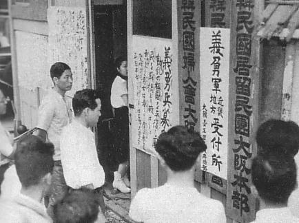 Wanted Volunteers by Mindan